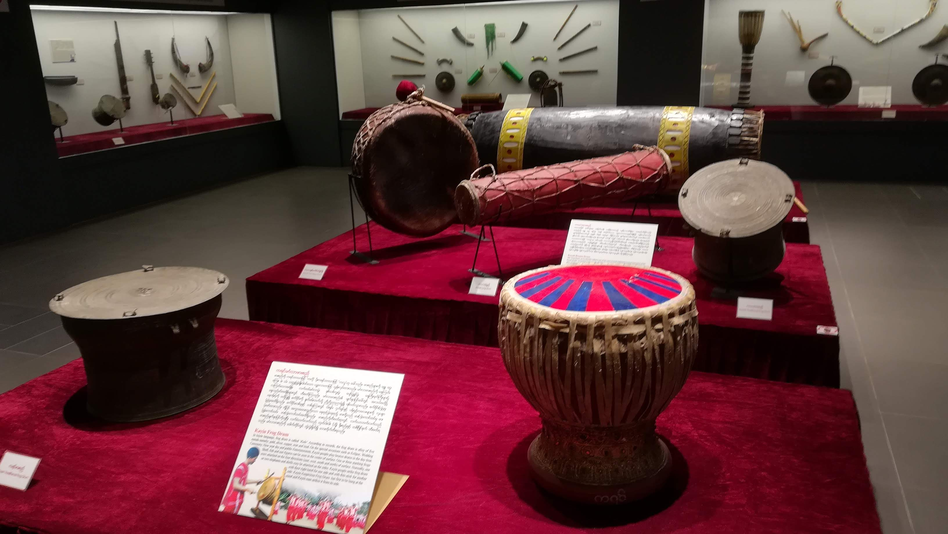 Traditional musical instruments of ethnic groups in Myanmar in National Museum Naypyitaw